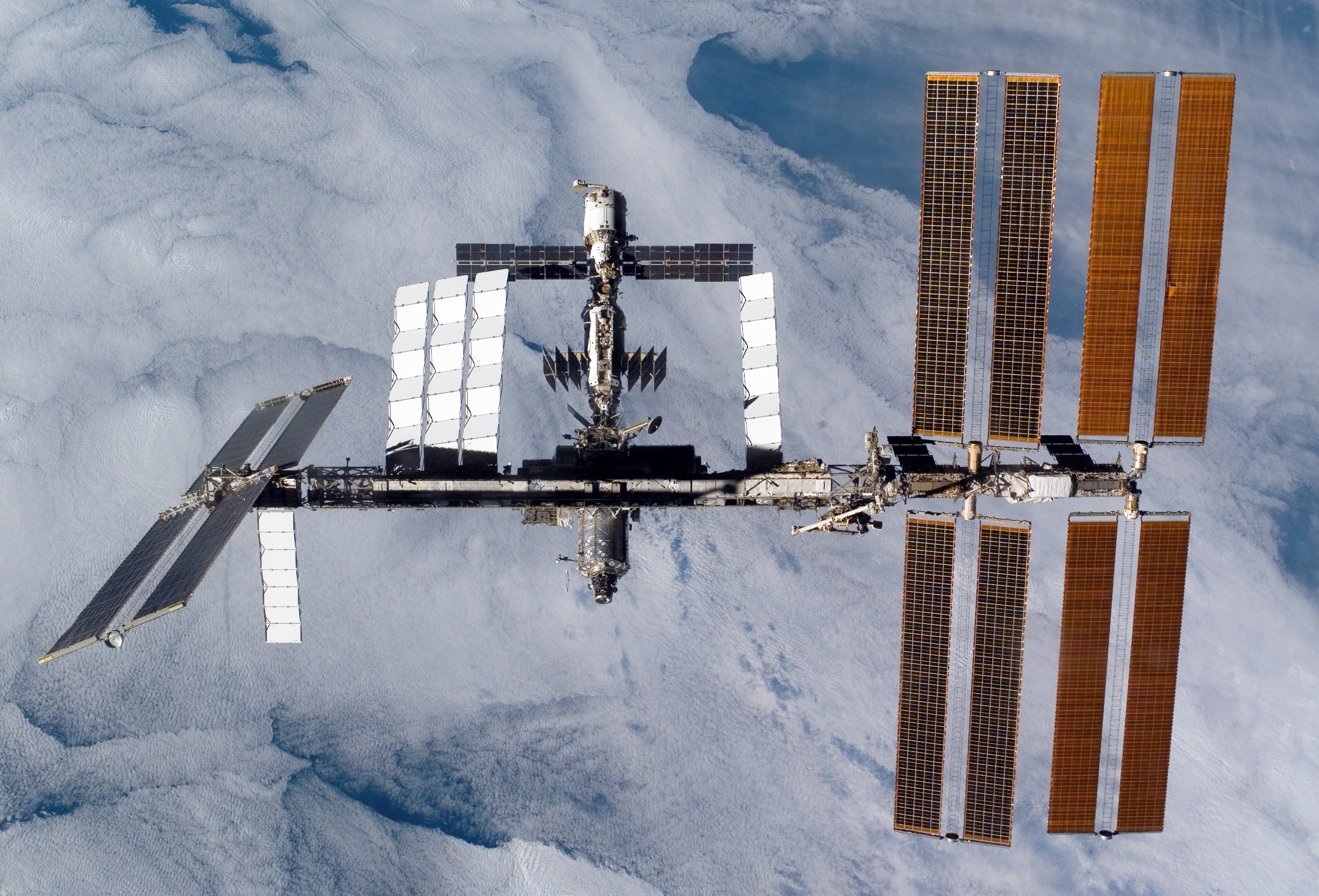 Backdropped by a blue and white Earth, the International Space Station is seen from Space Shuttle Discovery as the two spacecraft begin their relative separation. Earlier the STS-120 and Expedition 16 crews concluded 11 days of cooperative work onboard the shuttle and station. Undocking of the two spacecraft occurred at 4:32 a.m. (CST) on Nov. 5, 2007.